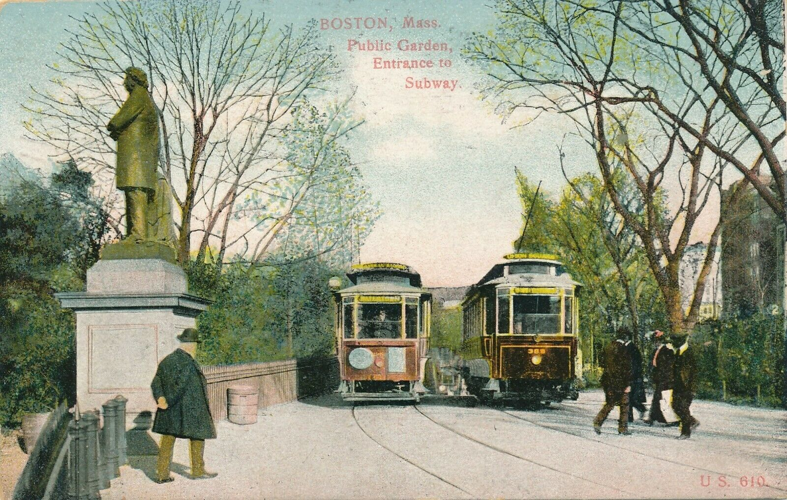 Early divided back postcard of streetcars at the Public Garden Incline, postmarked 1910. At left is a car bound for Watertown via North Beacon Street; at right is a car from Union Square.